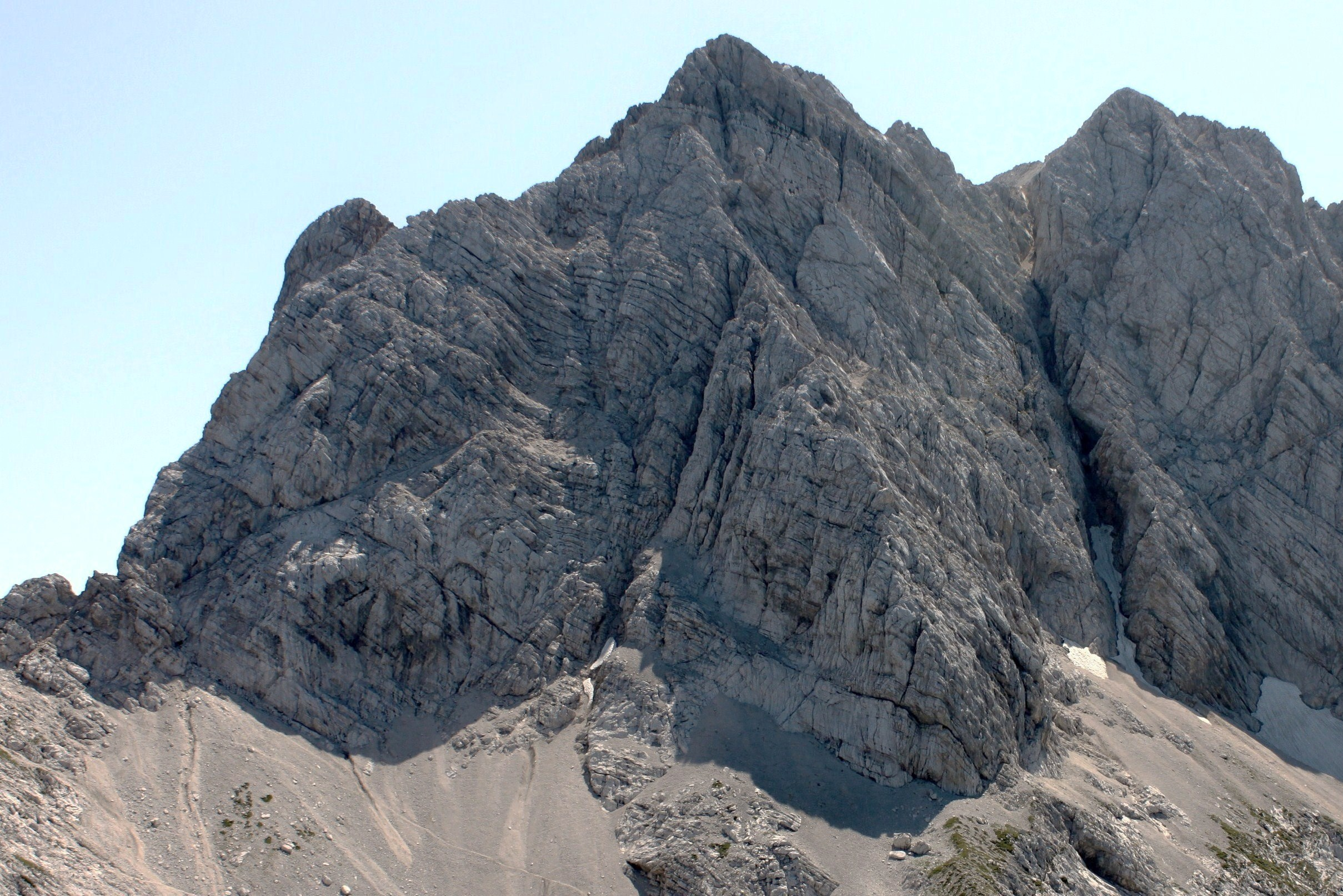 Križ (Koroška Rinka) Northwest seen from Ledinski vrh.